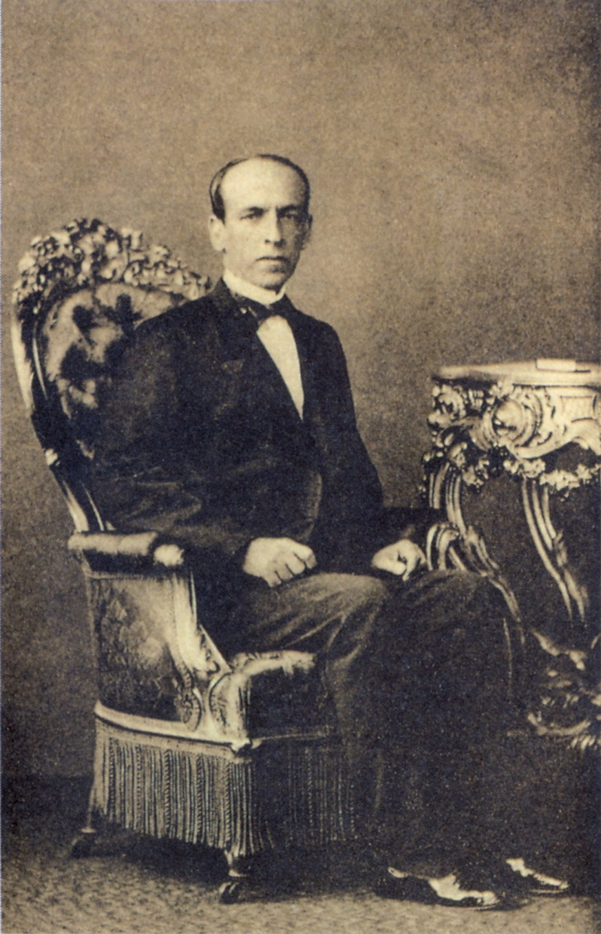 Zacarias de Góis e Vasconcelos, Brazilian seantor and one of the main leader of the Liberal Party.